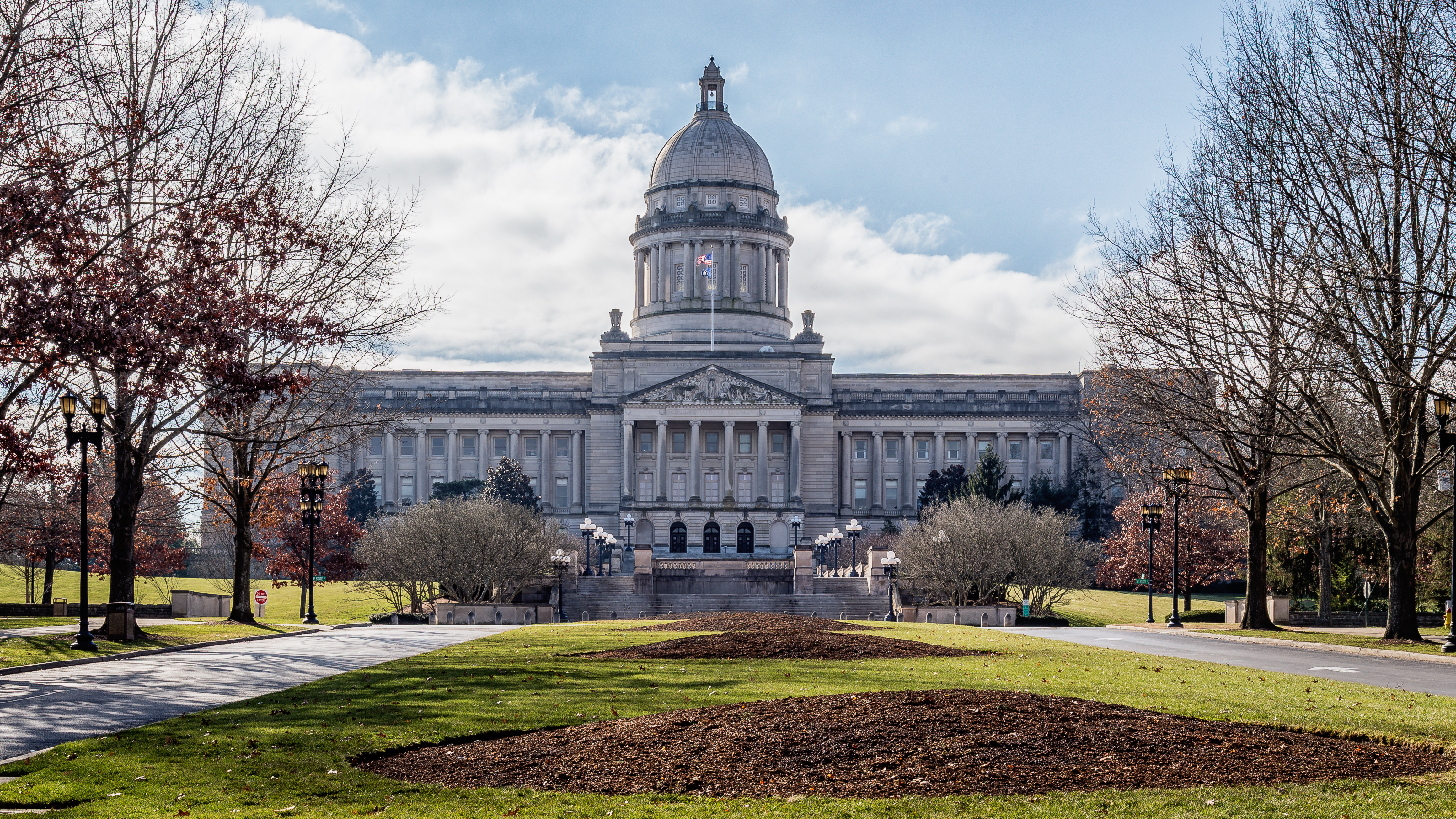 U.S. Route 60